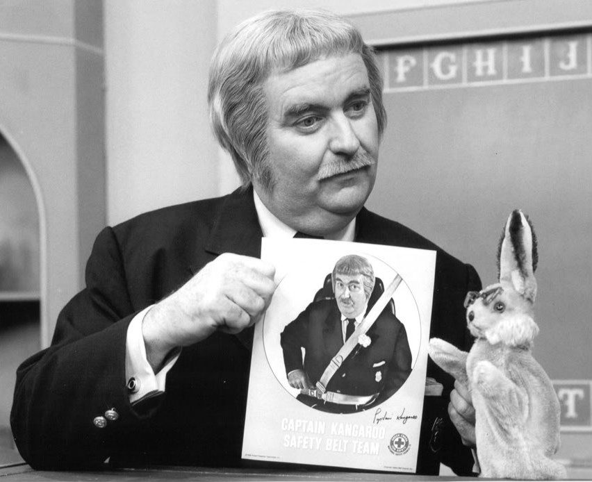 Publicity photo of Bob Keeshan as Captain Kangaroo and Bunny Rabbit as part of a seat belt campaign.